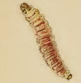 Stainton’s Natural History of the Tineina (1855–1873): Scrobipalpa acuminatella